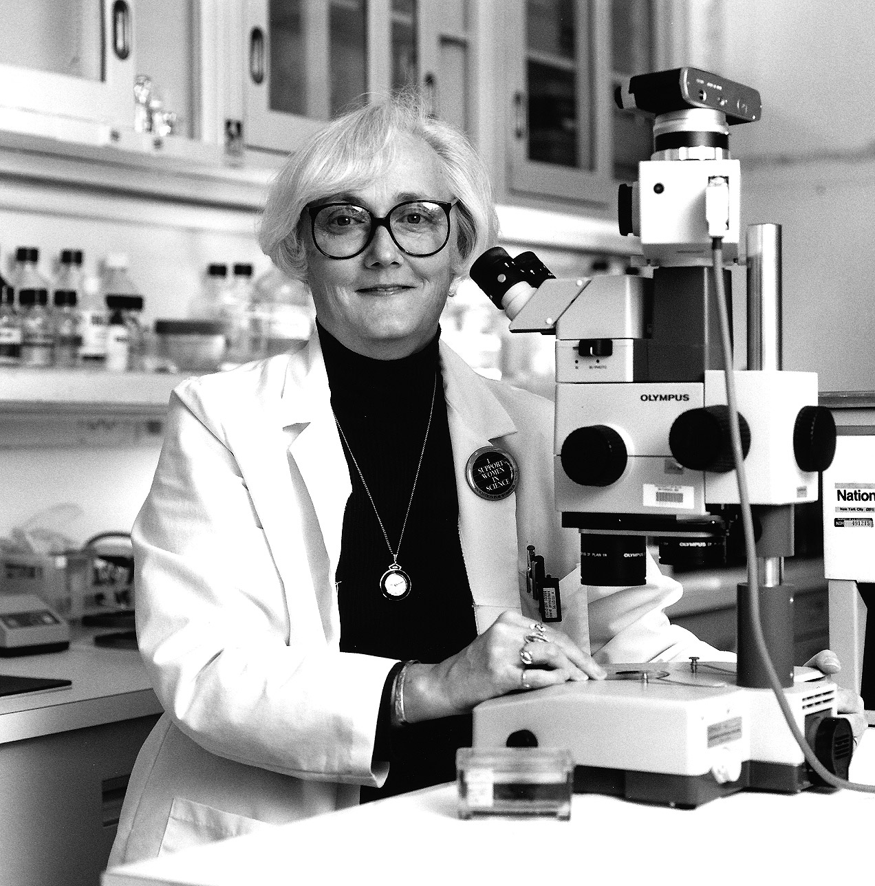 Title Vonderhaar, Barbara Description Scientist Emeritus, Cell and Cancer Biology Branch, Center for Cancer Research, National Cancer Institute. Topics/Categories National Cancer Institute, People Type B&W, Photo Source National Cancer Institute